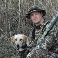 Modern Day Hoser